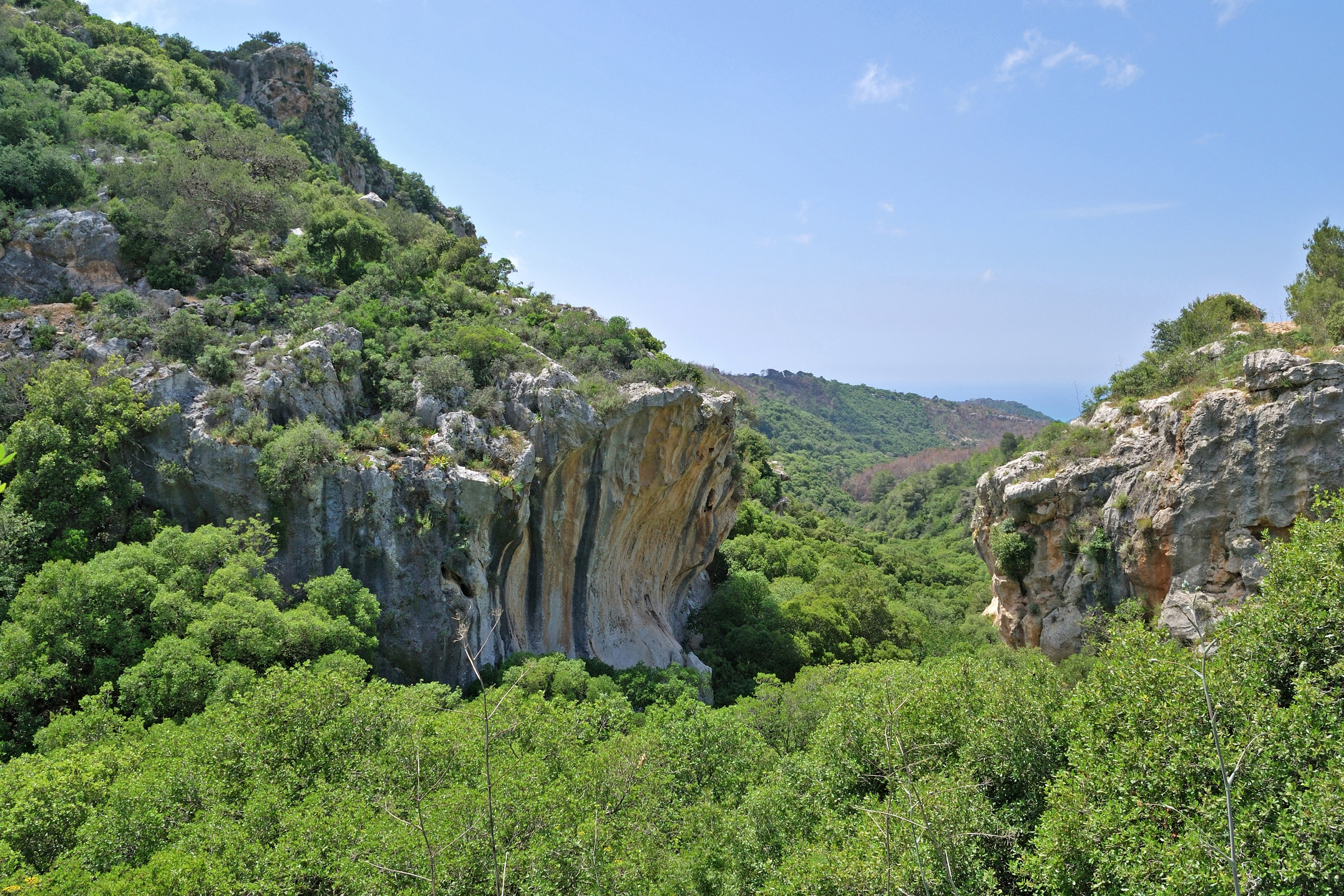 Northwest view of cliffs in Nahal Kelah (the Mediterranean Sea can be noticed in the horizon), Mount Carmel, Israel, May 9, 2011.